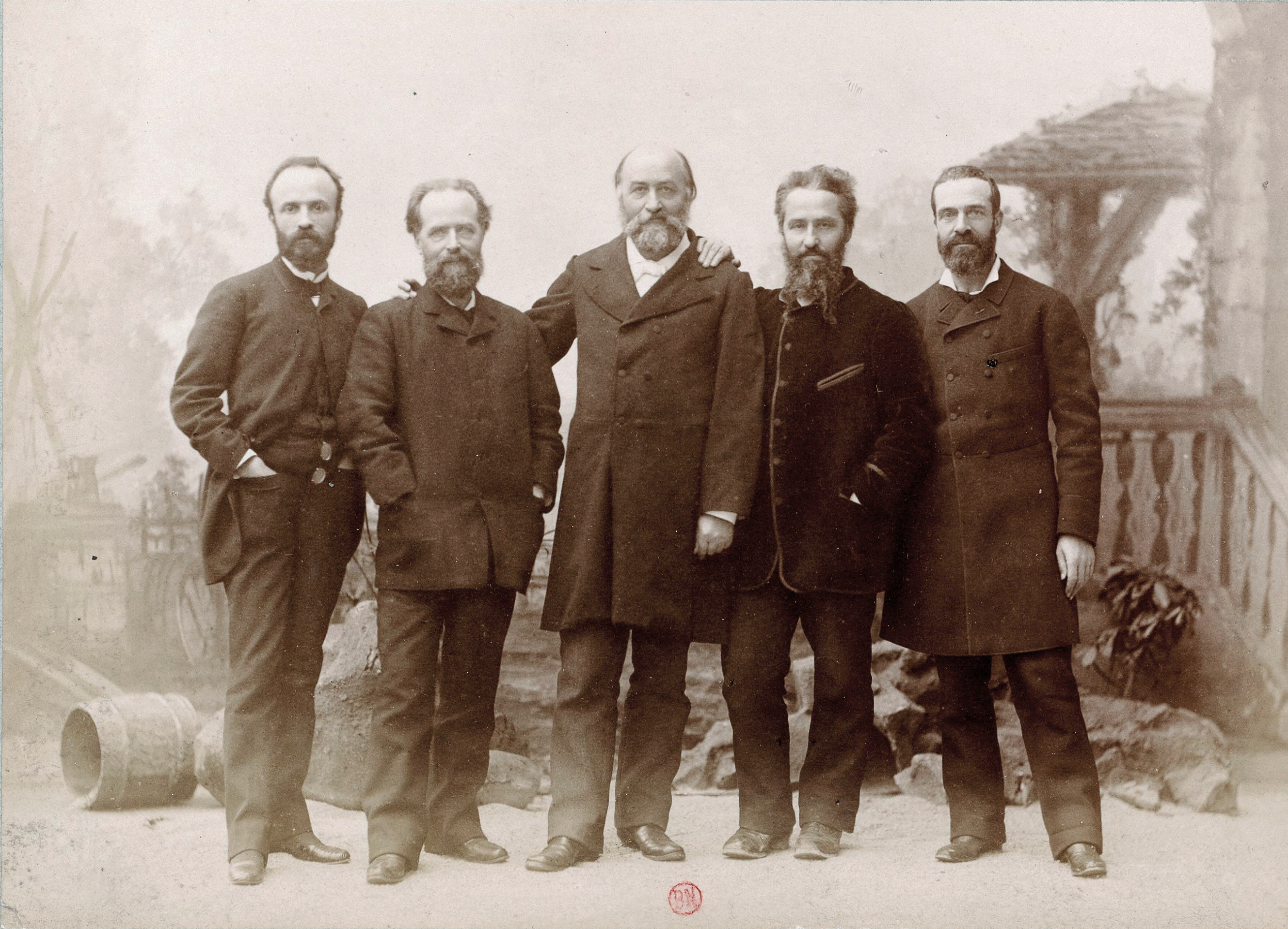 The Reclus brothers, 1889. From left to right, Paul Reclus (1847-1914), Élisée Reclus (1830-1905), Élie Reclus (1827-1904), Onésime Reclus (1837-1916), Armand Reclus (1843-1927). 1 positive photography on albumen paper, from grass negative; 16,2 x 22,3 cm.